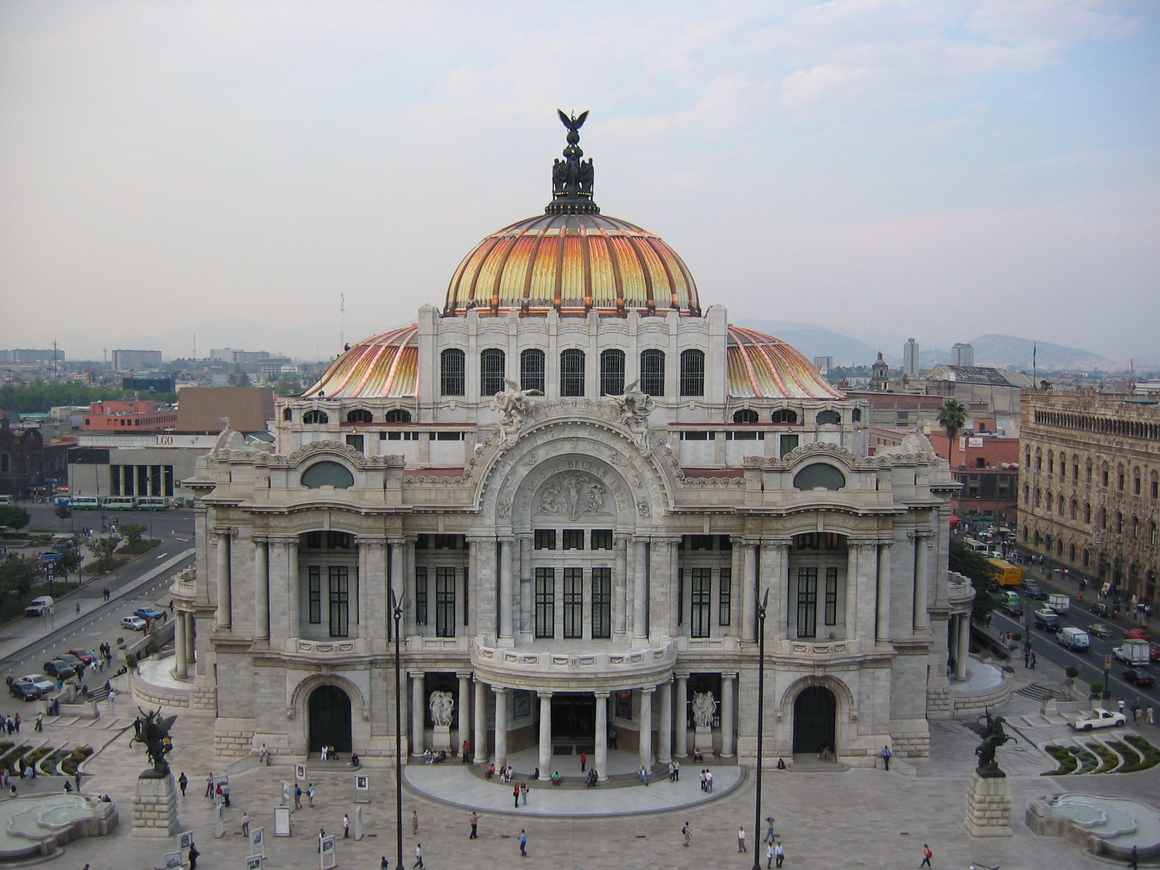 Palacio de Bellas Artes opera house in downtown Mexico City